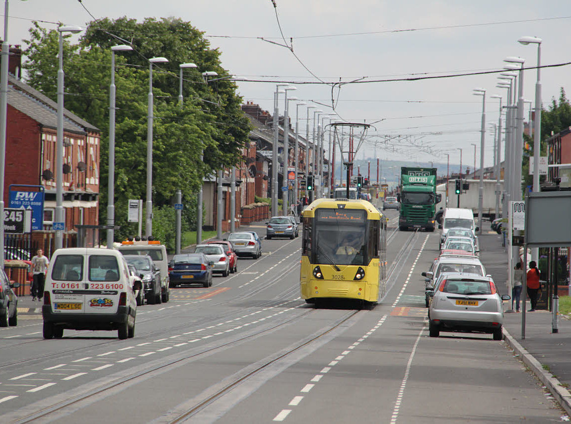 Ashton New Road. Classic street tramway scene, although this route was only opened in 2013..